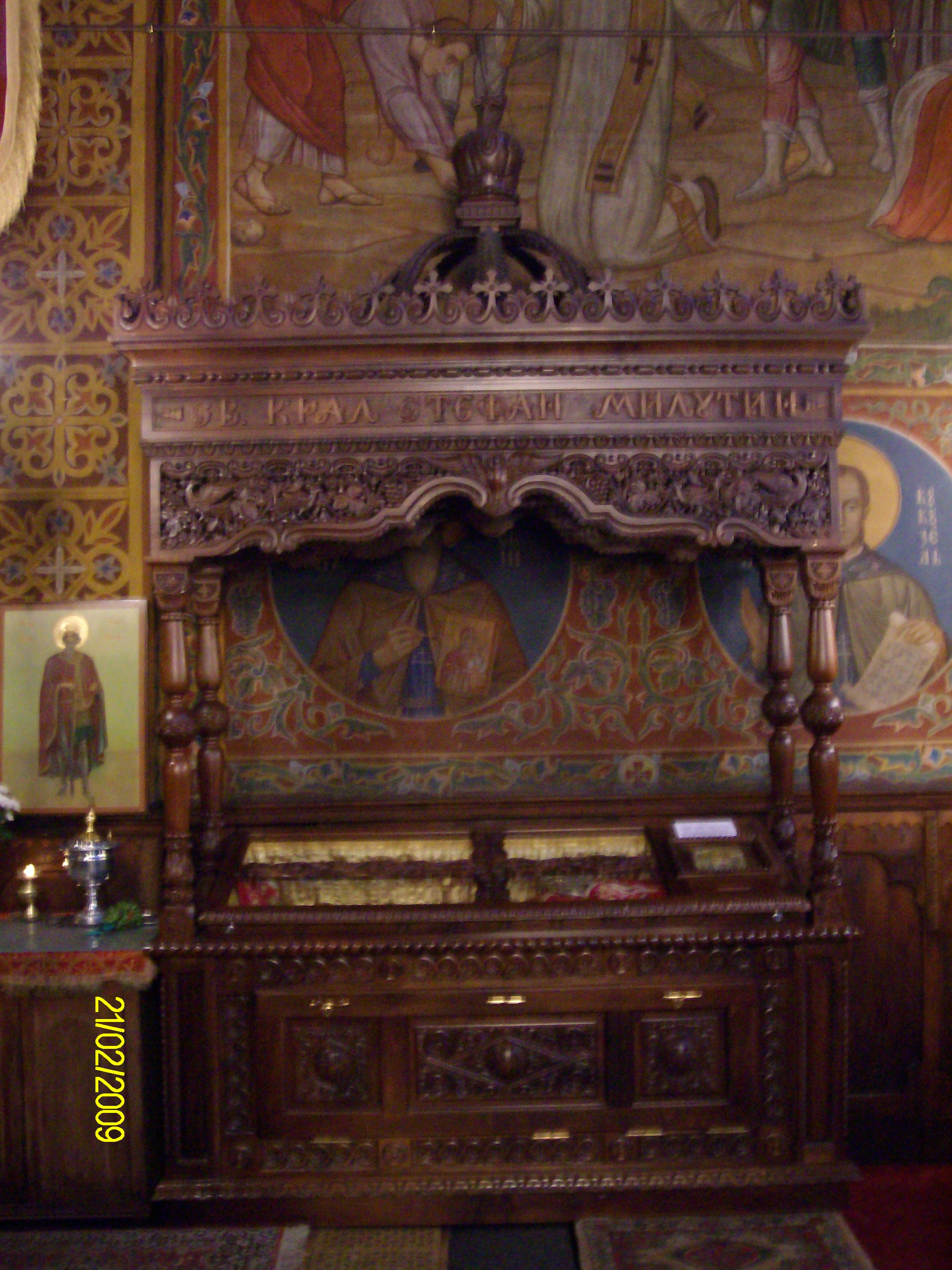 Coffin of relic Stefan Uroš II Milutin, Hadia Nedelja Church, Sofia, Bulgaria